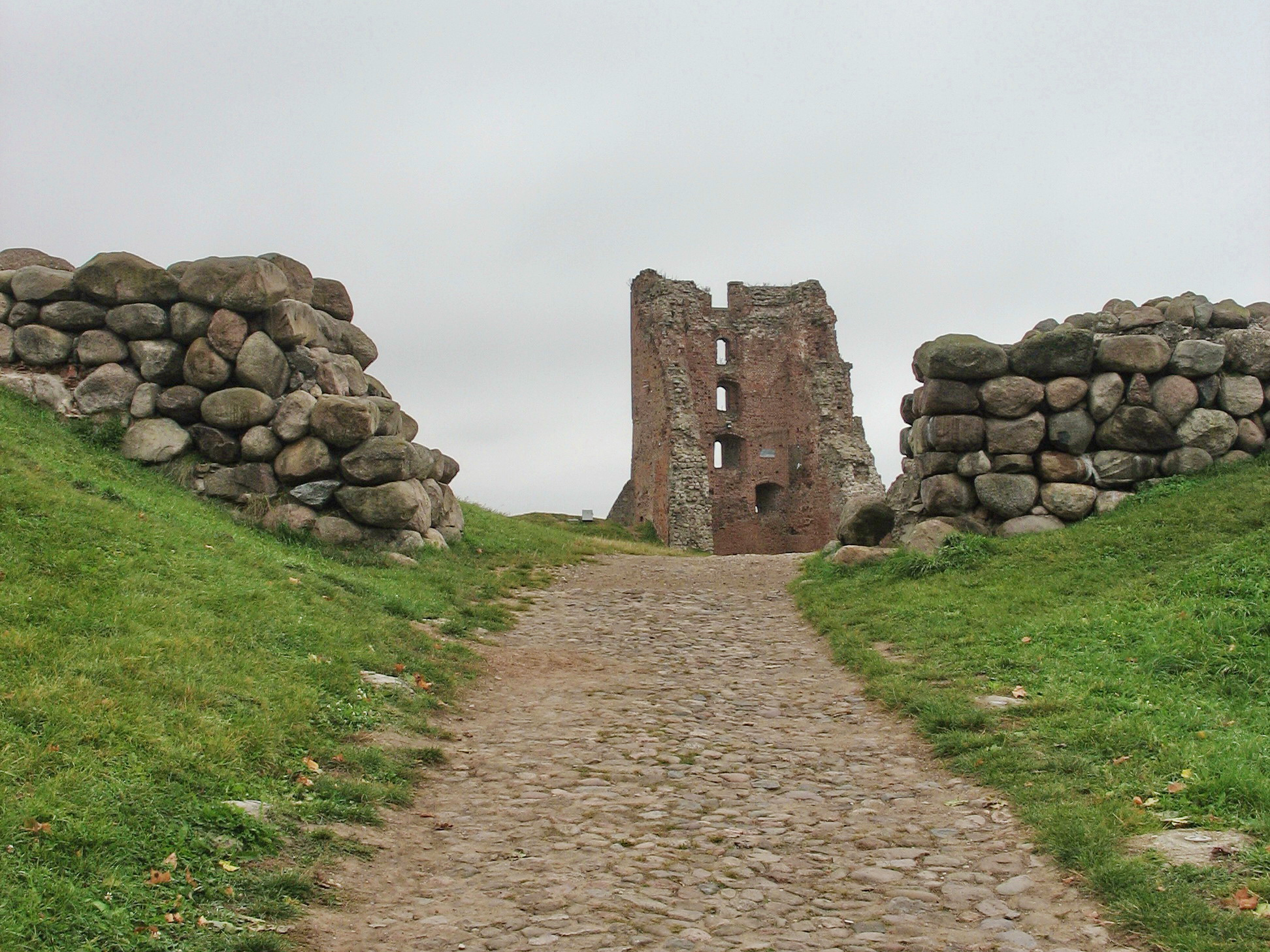 Беларуская (тарашкевіца): Рэшткі замка. г. Наваградак This is a photo of Belarusian heritage monument. Reference number: 411Г000404 ( WLM)